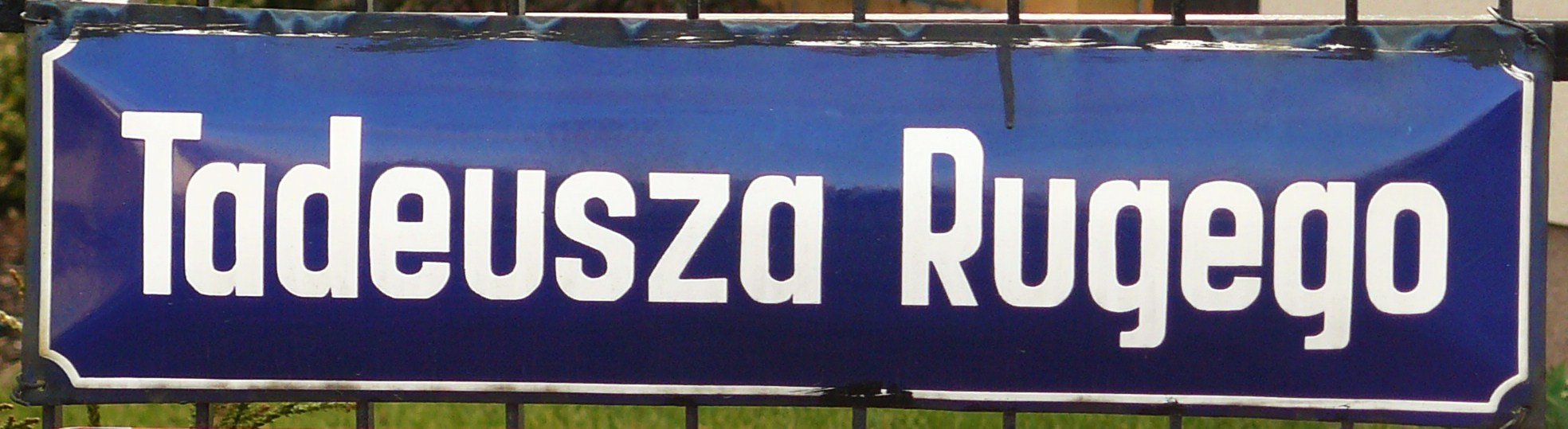 Tadeusz Ruge Street, Poznan.